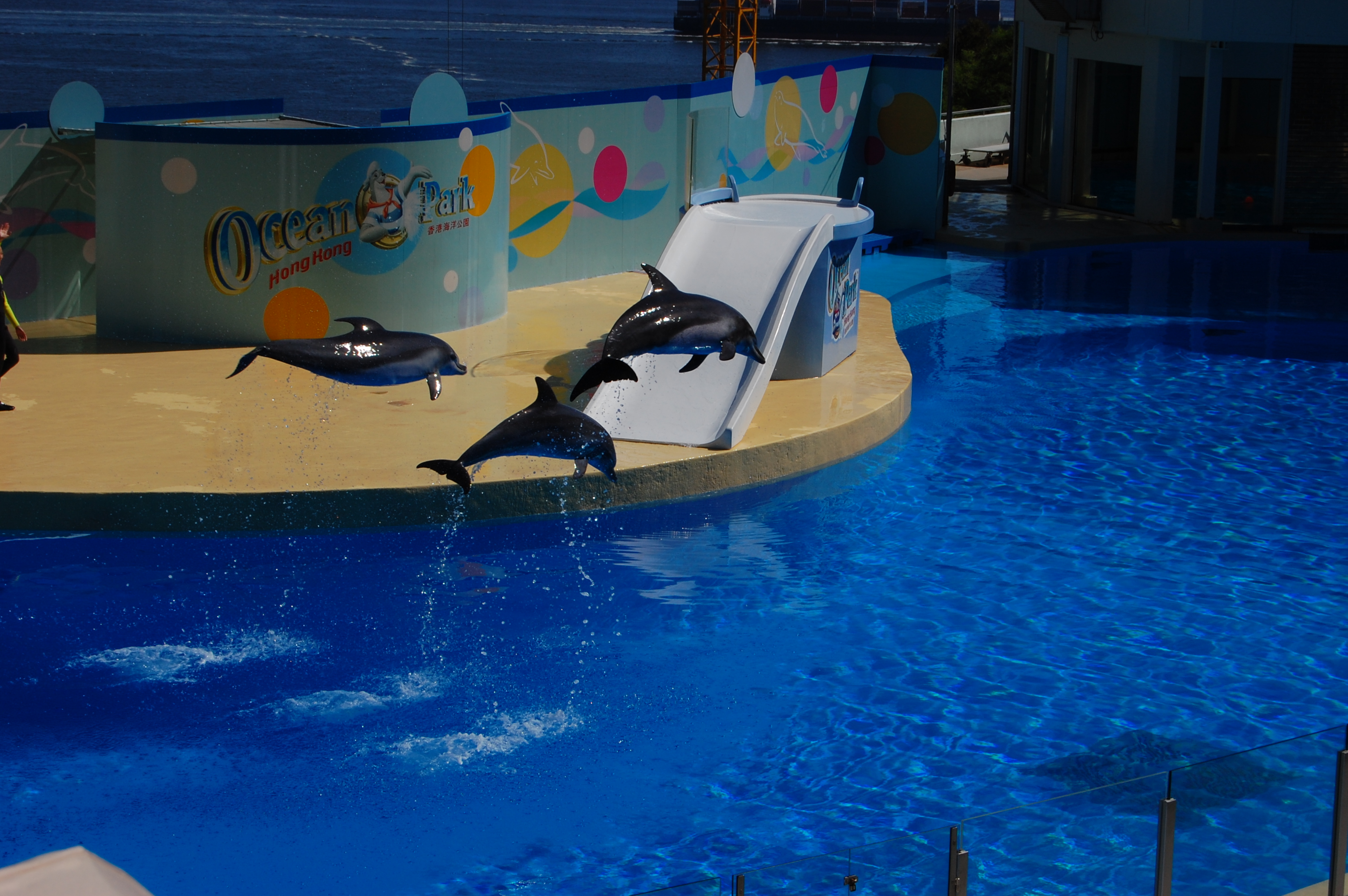 Special performance found in Ocean Park. Three dolphins are jumping out from the water and the moment is captured.